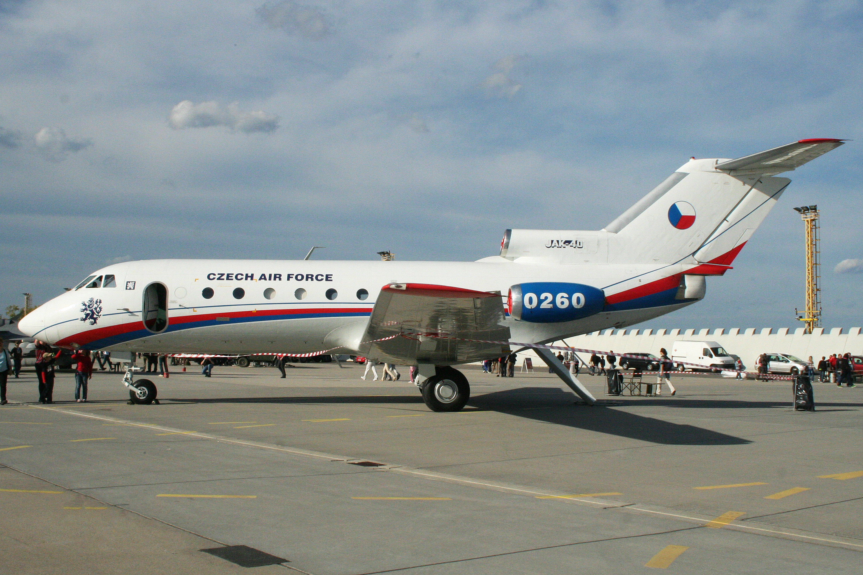 Fantastic to see one of the Yak-40s on display!Operated by 241.dlt based at Kbely. Also allocated civil registration 'OK-BYR' msn 9940260. On static display at the Namest Open Day, Czech Republic. 06-10-2012